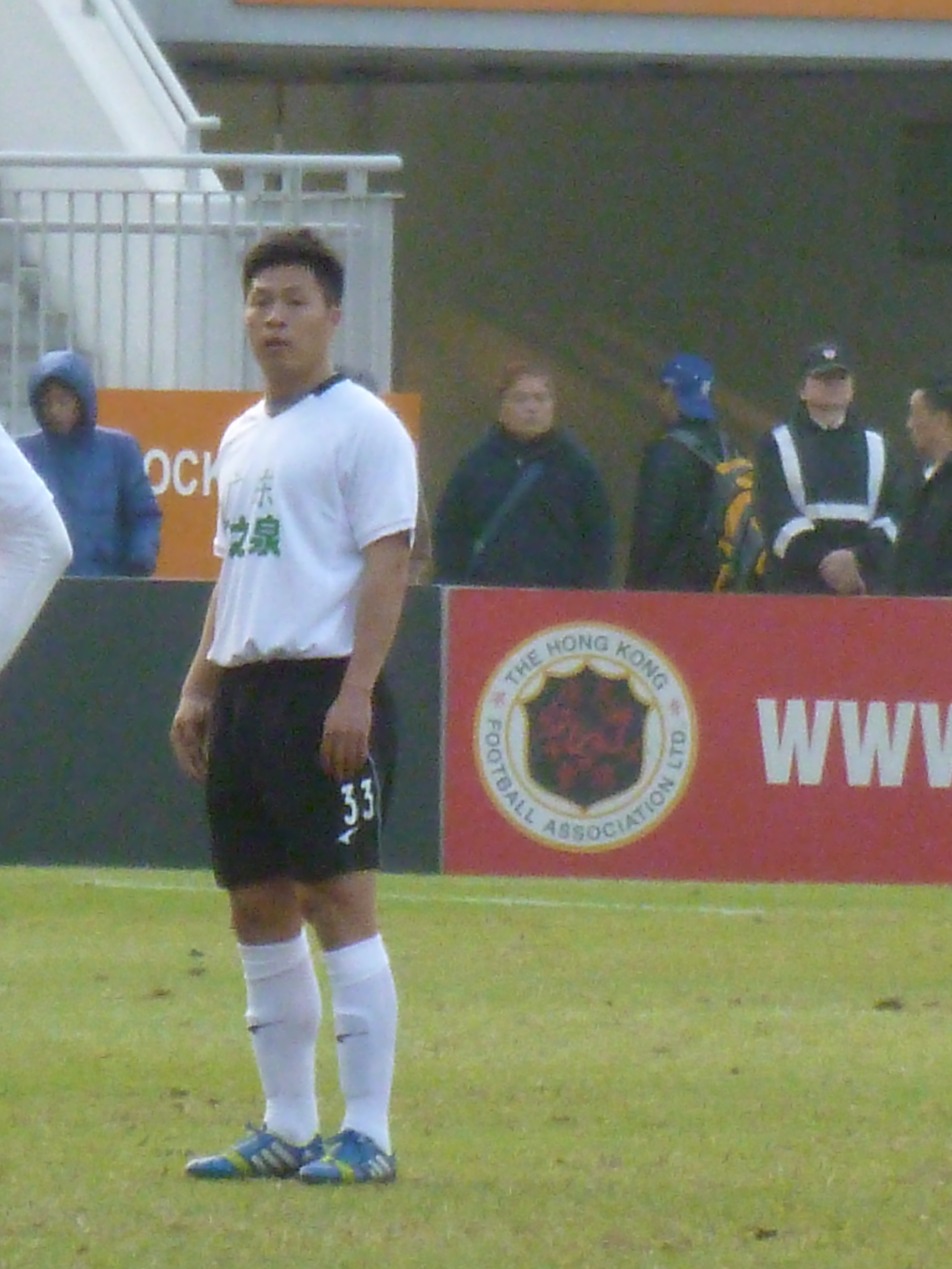 Cai Jingyuan (29 Dec 2013, 36th Guangdong-HongKong Cup, Hong Kong vs Guangdong, Mongkok Stadium)中文（香港）: 蔡鏡源 (29 Dec 2013, 第36屆省港盃, 香港 vs 廣東, 旺角大球場)